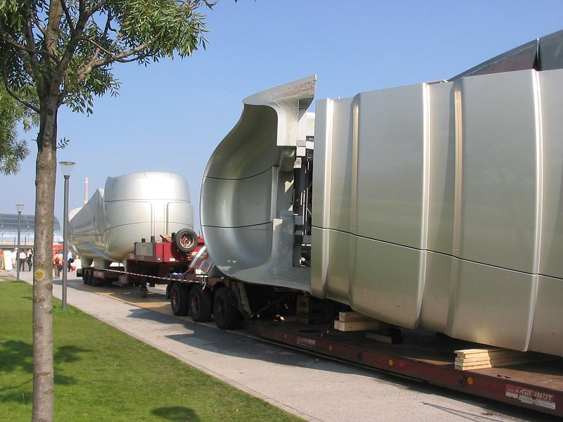 Dismantling of the installation „Der moderne Fußballschuh“ (The modern football-shoe) at the end of september 2006. „Der moderne Fußballschuh“ was the first sculpture (from six) of the Berliner Walk of Ideas on the occasion of 2006 FIFA World Cup Germany. Unveiling: 10 March 2006 in Spreebogenpark.